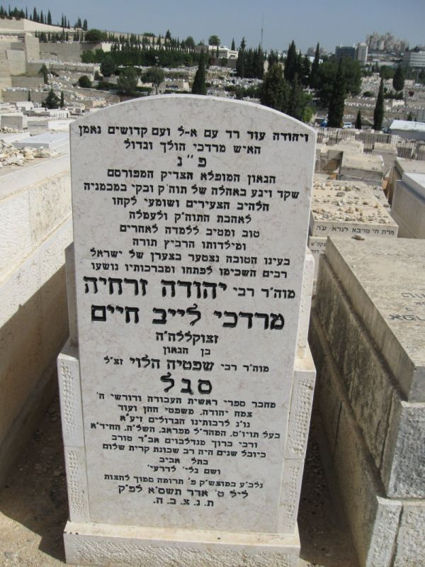 Grave of Rabbi Yehudah Zrachya Segal ZTZ"L